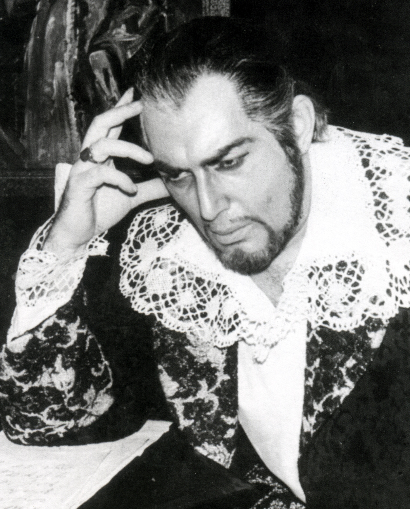 The bass Anton Diakov in the role of Filippo II